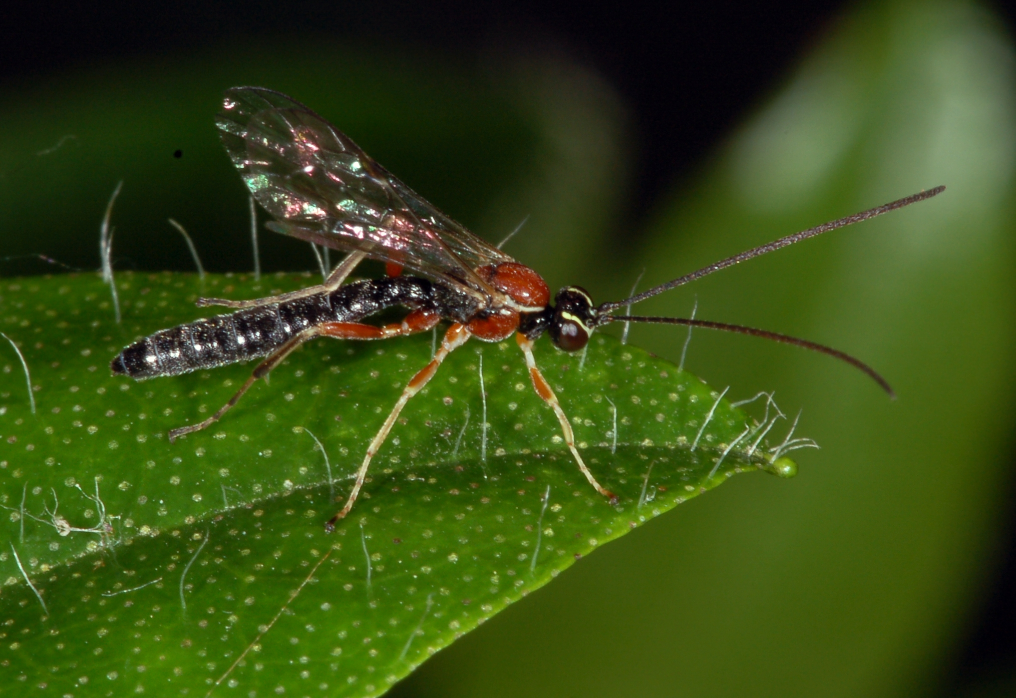 Hymenoptera, Nied, Frankfurt/Main, Germany